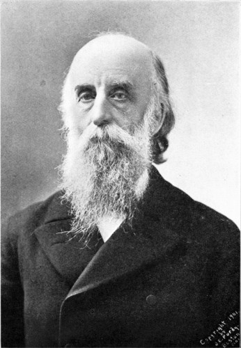 Photo of Lyman Abbott